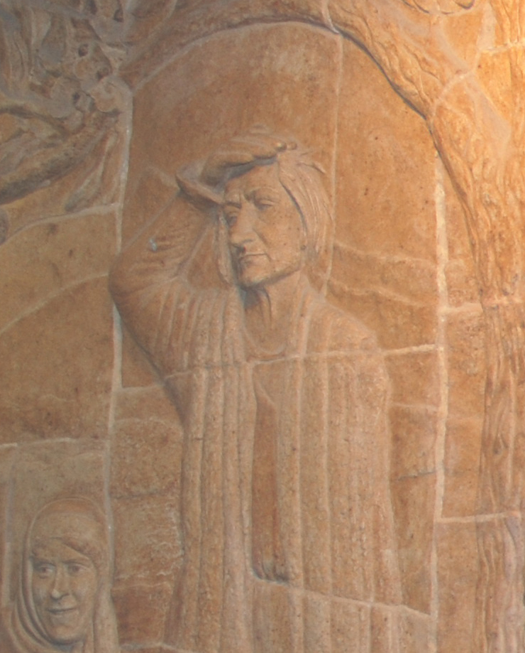 Detail of relief Markswomen by Tyra Lundgren, permanently installed at municipality school Franz Schartaus Gymnasium, Stockholm, Sweden